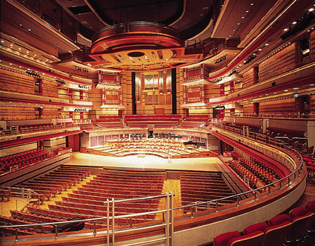 Interior picture of Symphony Hall Birmingham